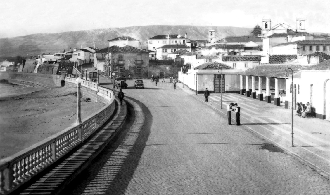 Quartel do Posto da Praia da Vitória em meados do século xx.